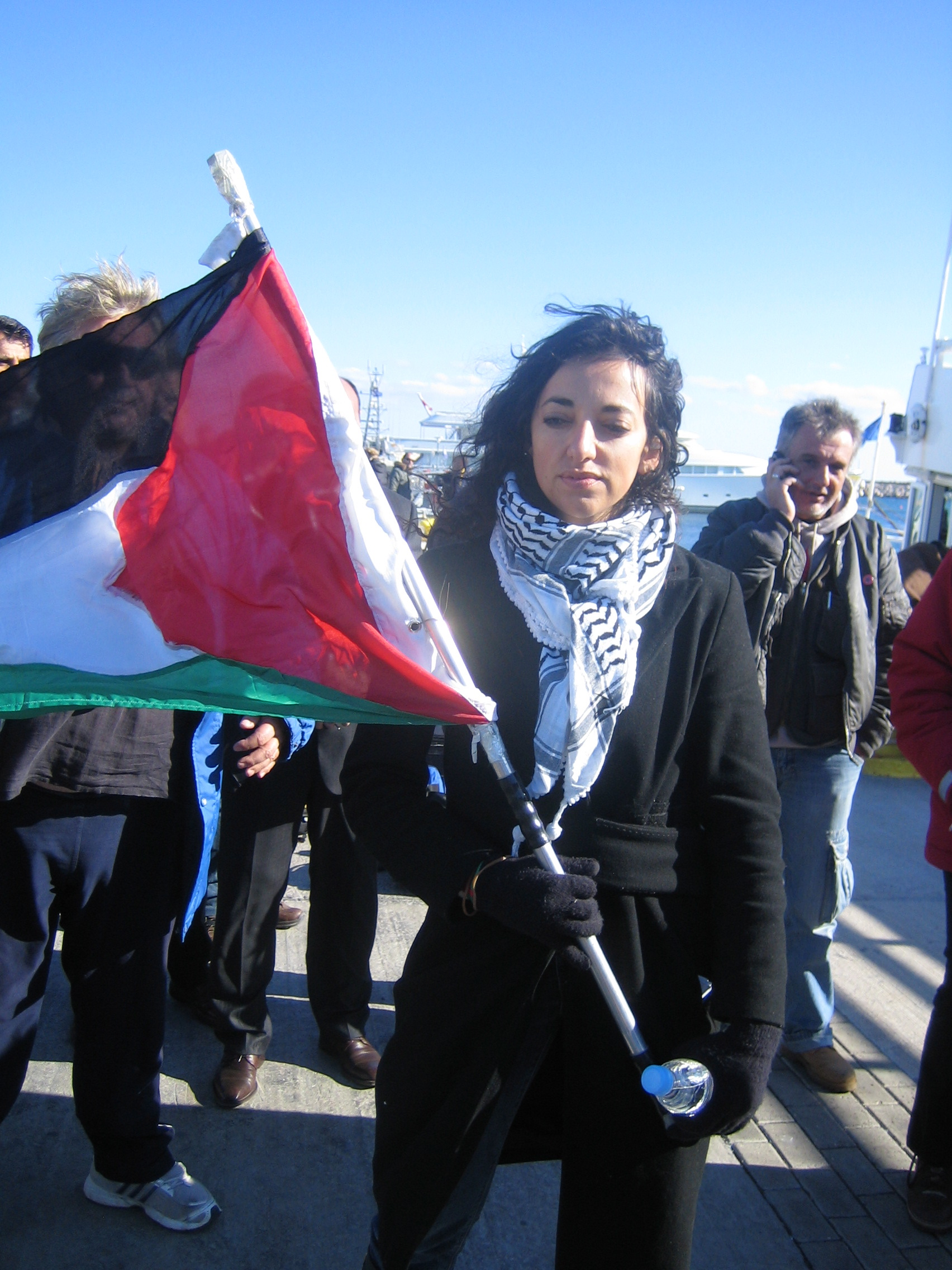 Huwaida at the Port before departure